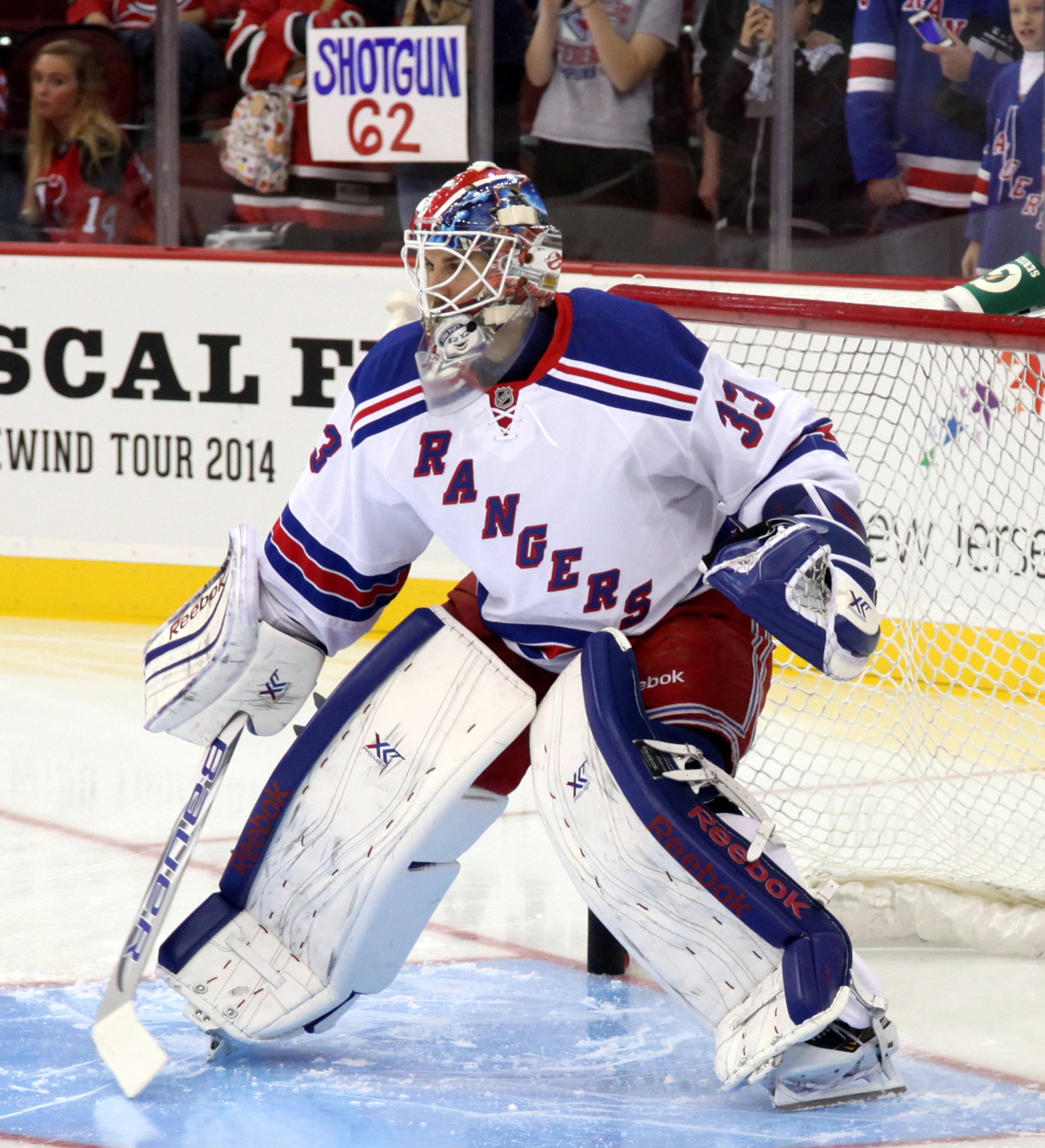 Talbot as a Ranger in October 2014.